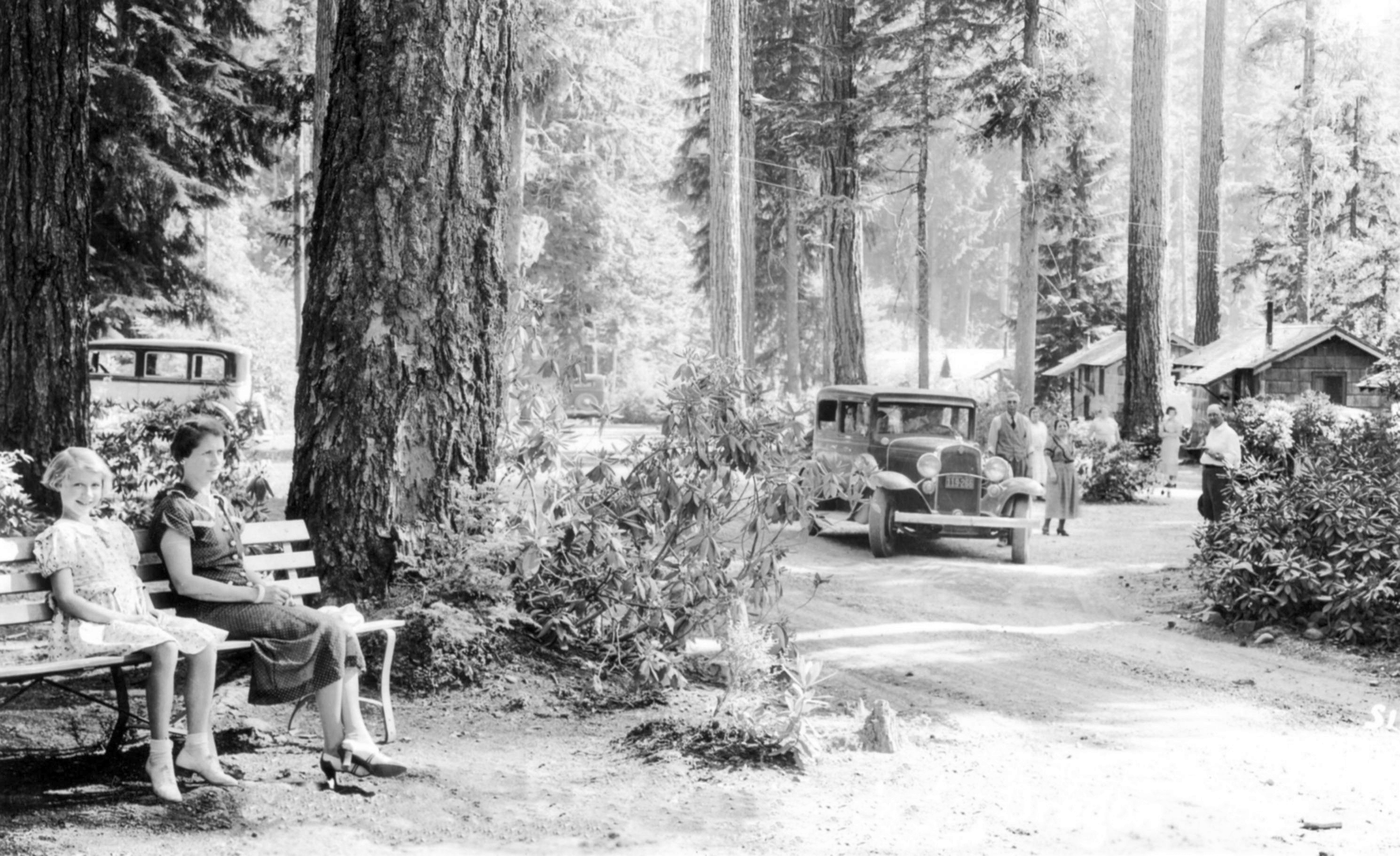 Cabins at Breitenbush Hot Springs, Oregon. Original Collection: Gerald W. Williams Collection, 1855-2007 Item Number: WilliamsG: SVbreitencars You can find this image by searching for the item number by clicking here. Want more? You can find more digital resources online. We're happy for you to share this digital image within the spirit of The Commons; however, certain restrictions on high quality reproductions of the original physical version may apply. To read more about what “no known restrictions” means, please visit the Special Collections & Archives website, or contact staff at the OSU Special Collections & Archives Research Center for details.